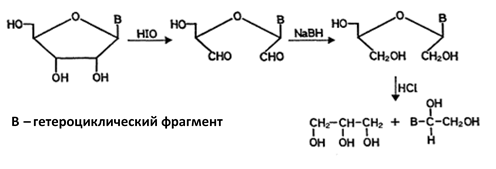 ACD Labs